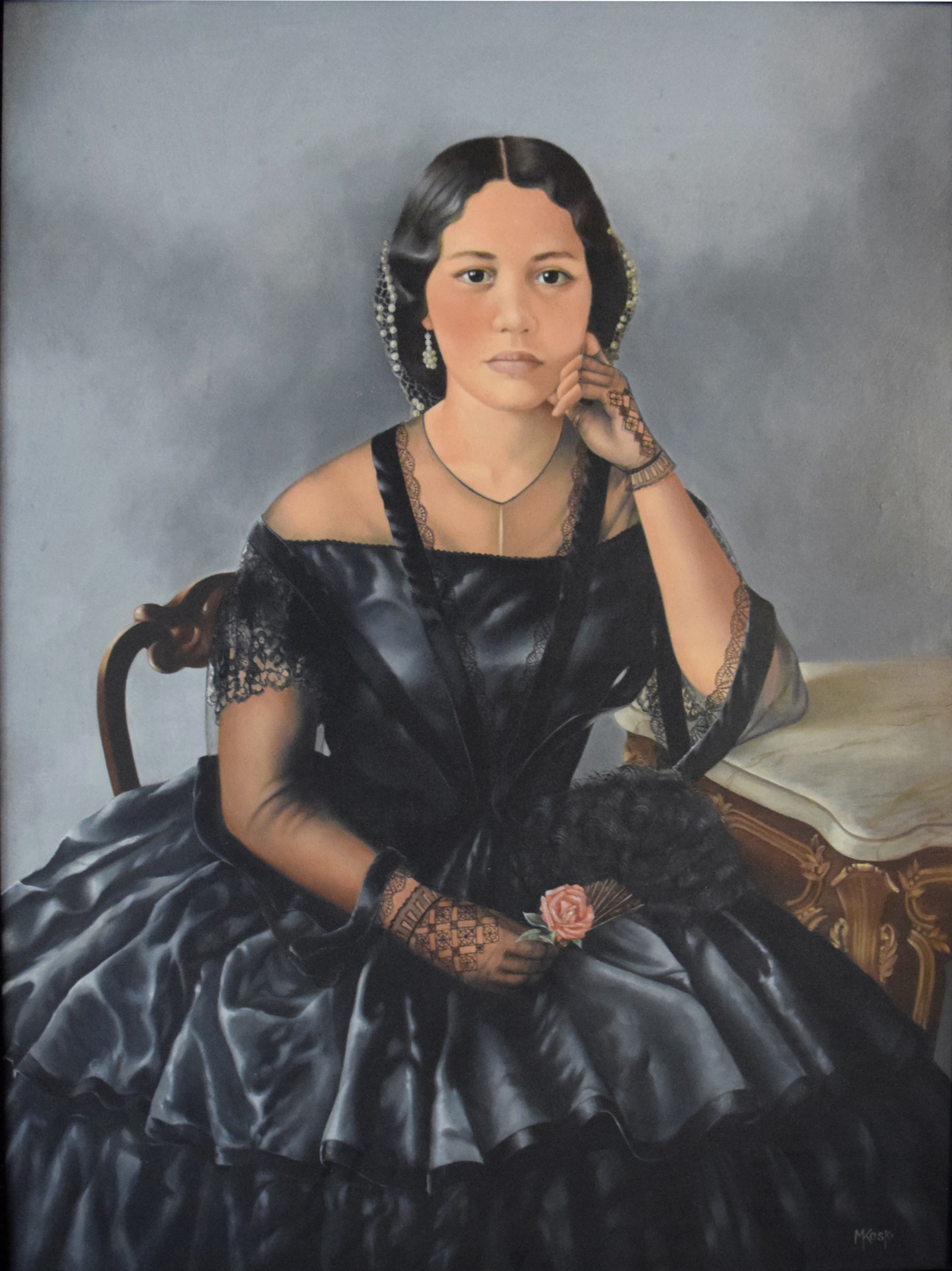 Portrait of High Chiefess Elizabeth Keka`aniau La`anui, member of the Kamehameha Dynasty, painted by Mary Koski and installed in the historic Kawaiaha`o Church royal pews